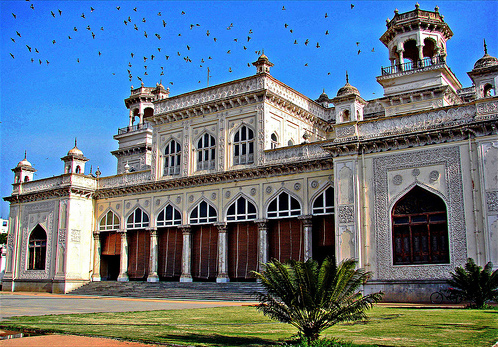 chowmahalla palace in hyderabad